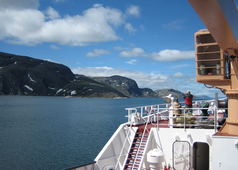 Nain Labrador - A view of Paul's Island from on board the supply ship "Northern Ranger"